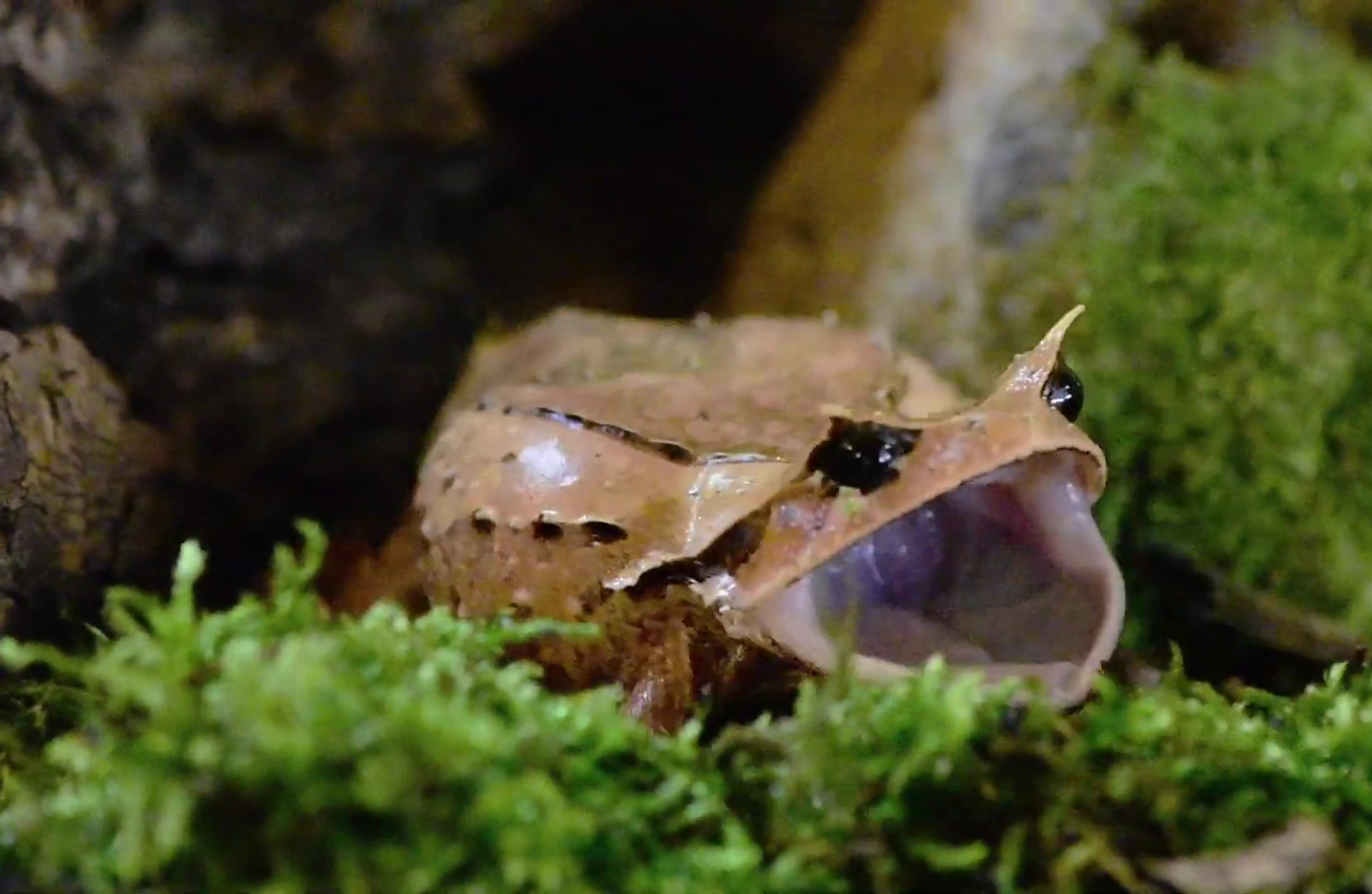 Brachytarsophrys intermedia